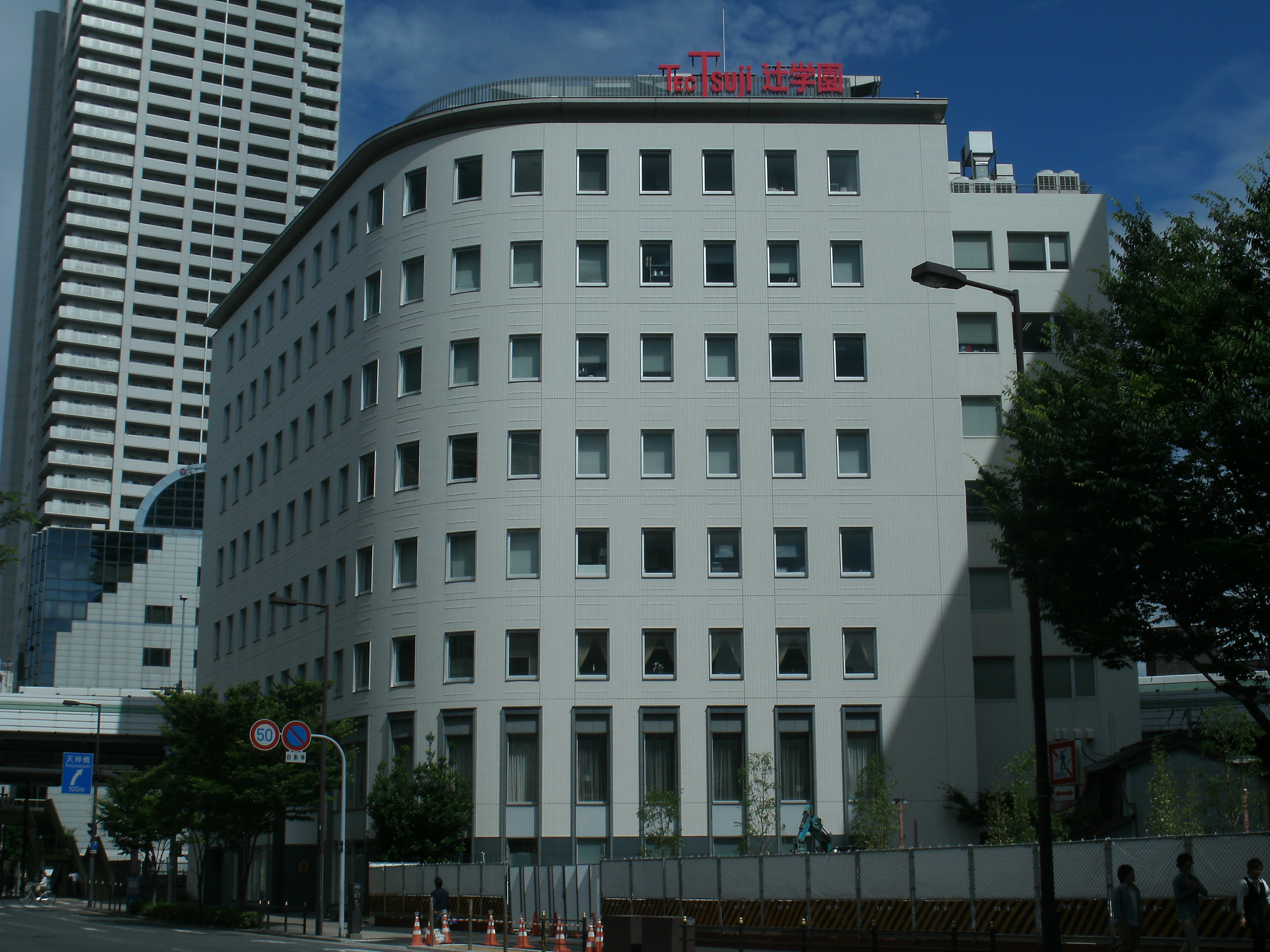 Tec Tsuji